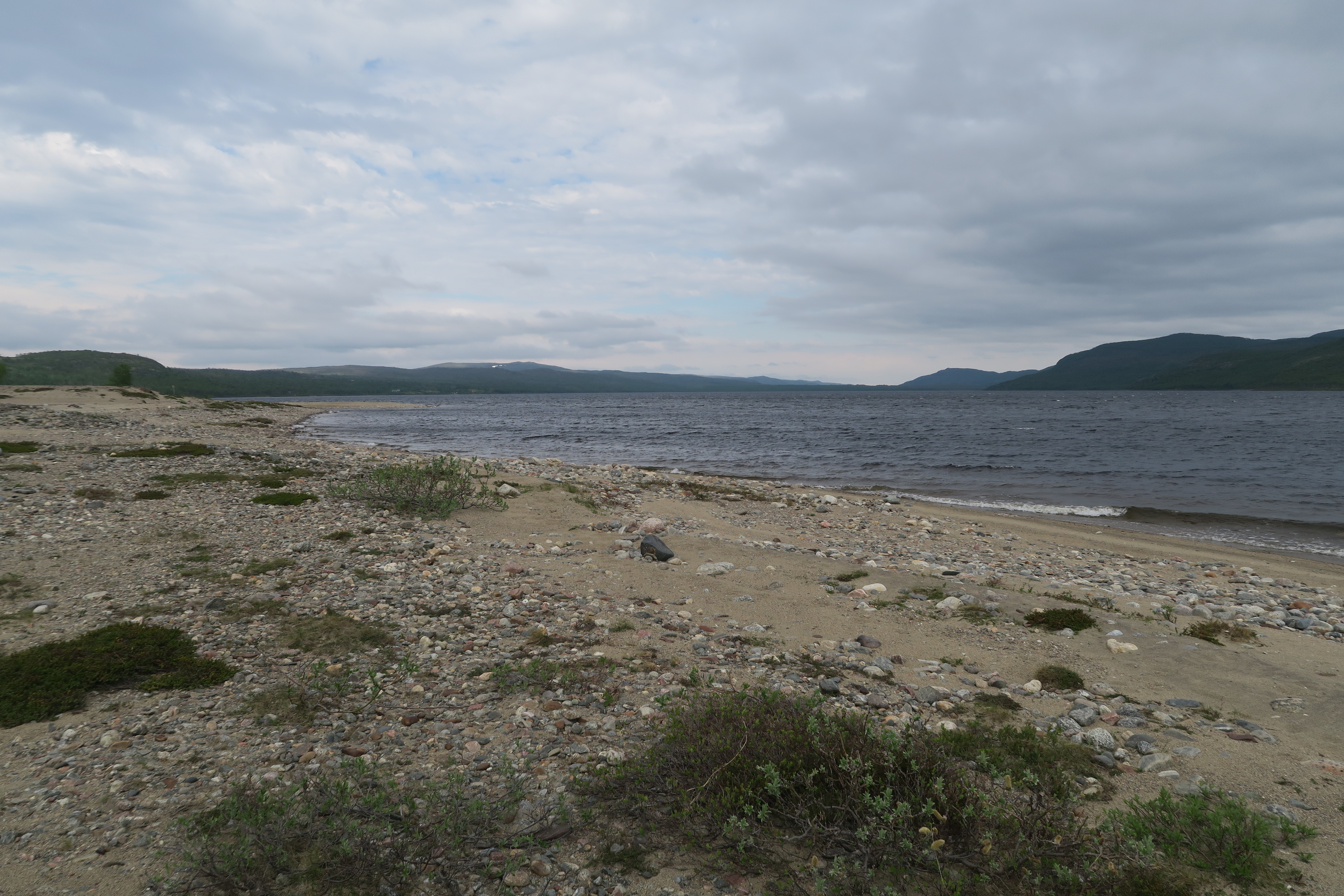 Lake Pulmankijärvi in Utsjoki, Finland. Davvisámegiella: Buolbmátjávri